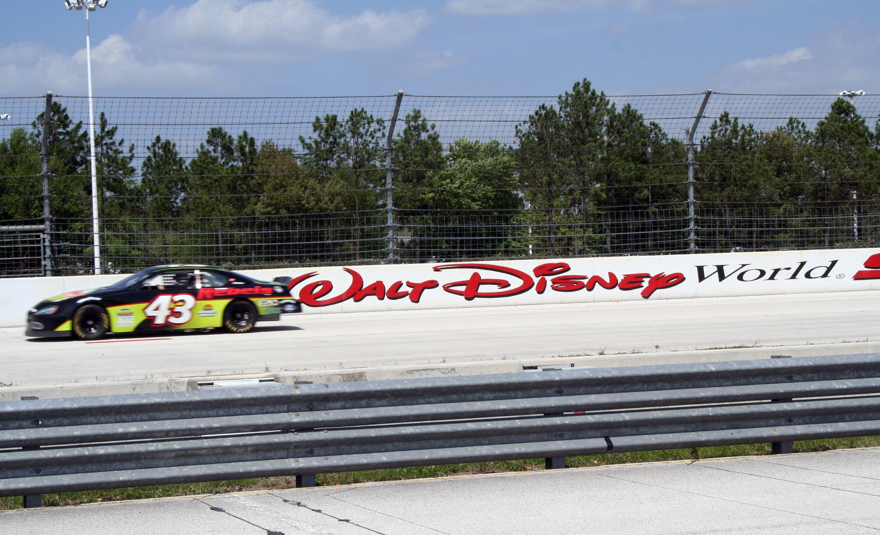 A student piloting the #43 at the Richard Petty Driving Experience at Walt Disney World Speedway.